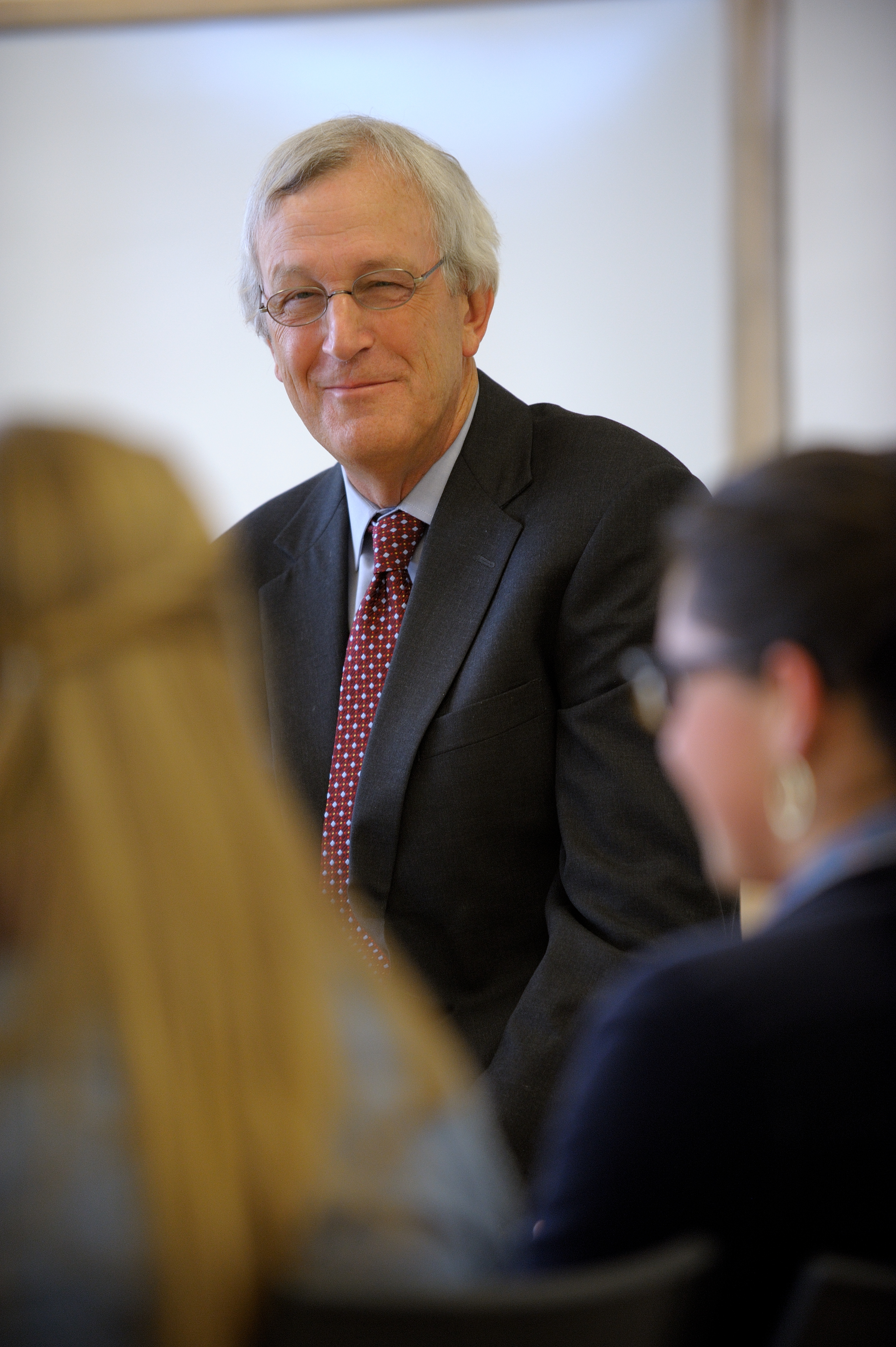 B. Joseph White, President Emeritus of the University of Illinois and James F. Towey Professor of Business and Leadership. Dean Emeritus and Professor Emeritus of the Stephen M. Ross School of Business at the University of Michigan.